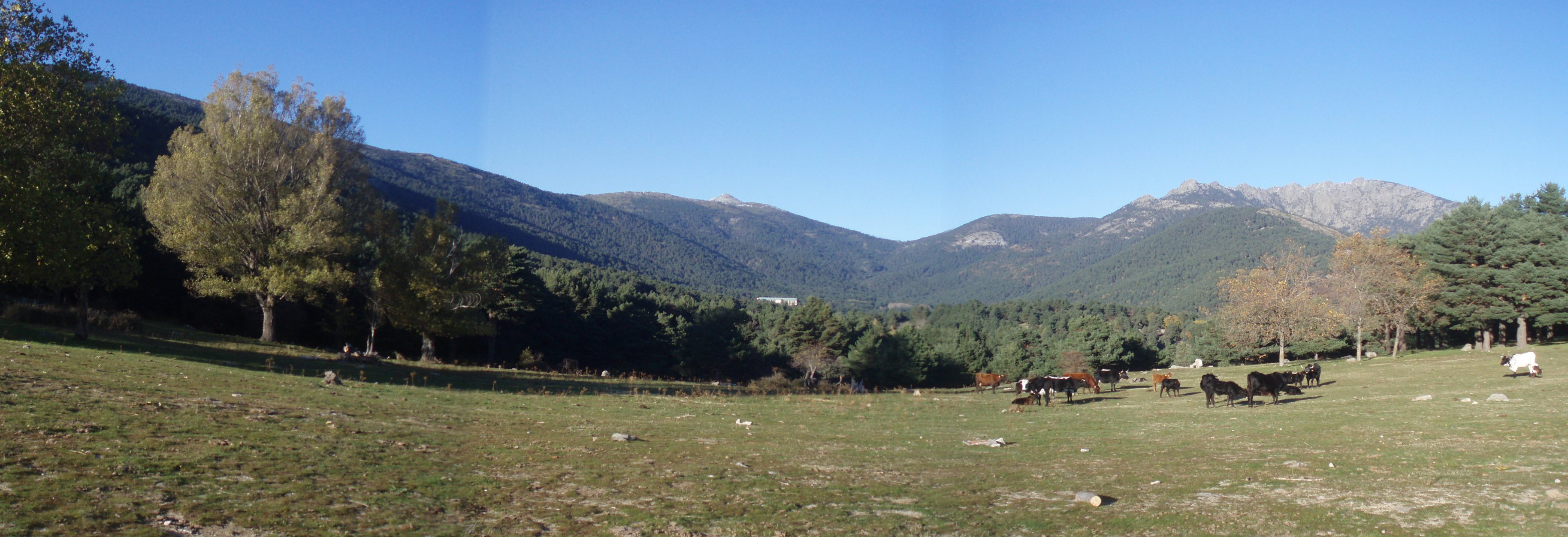 Panoramic view of the Fuenfría Valley (Guadarrama mountain range, Central Spain).